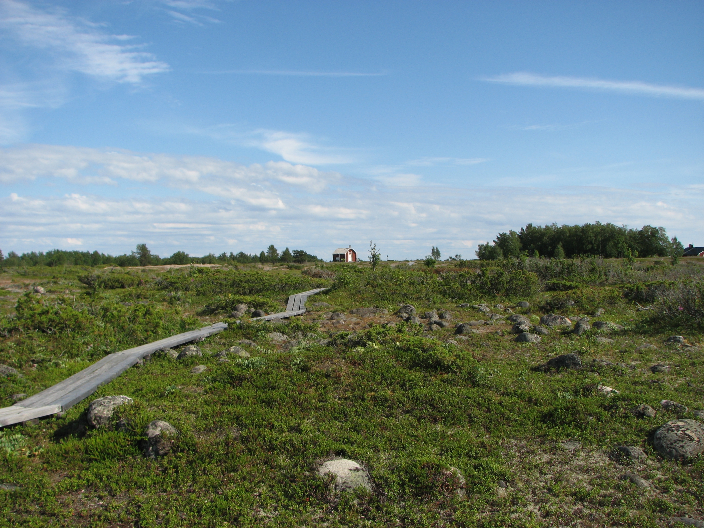 Sandskär island with Sandskärs kapell in the background.